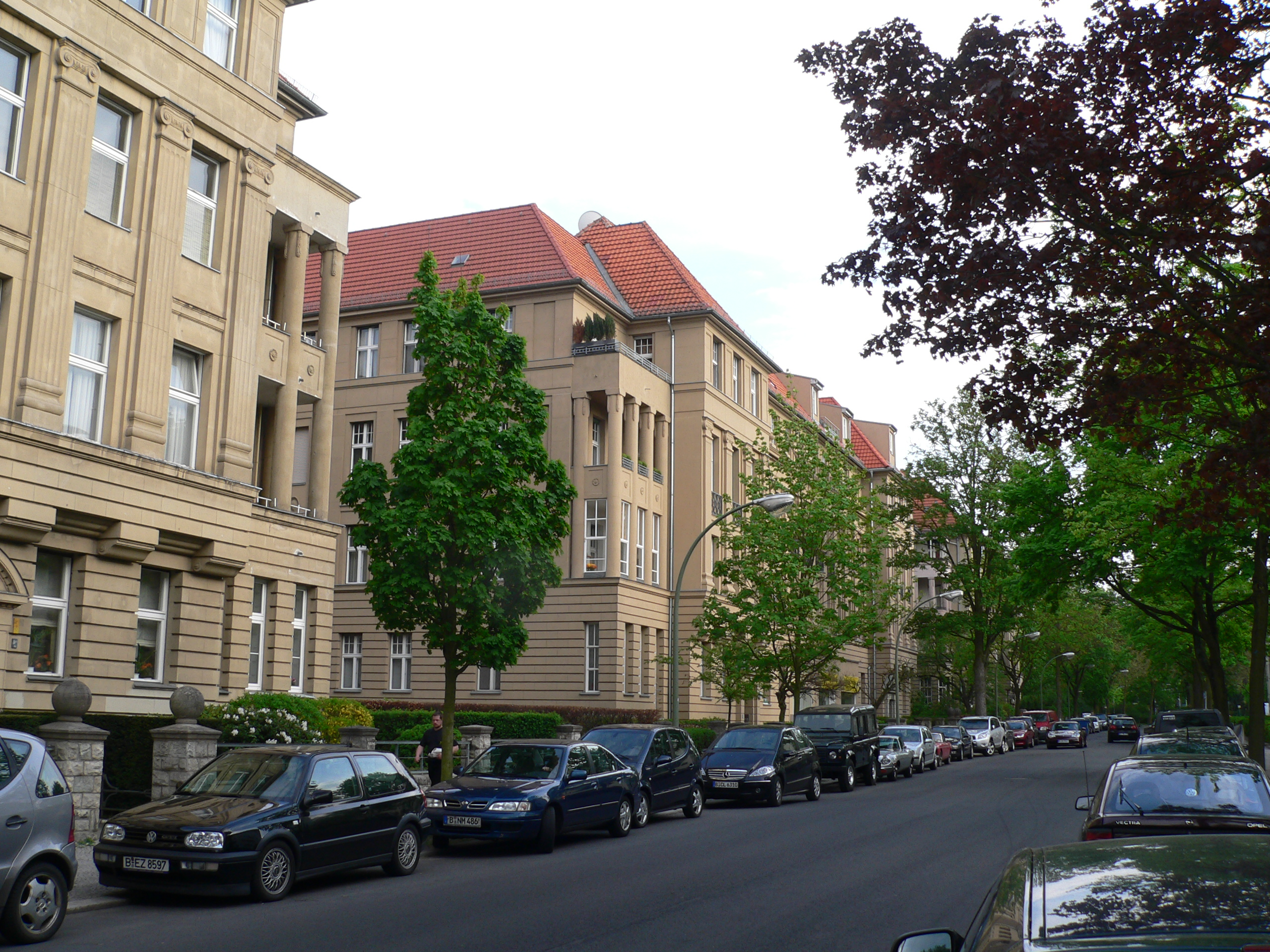 Berlin-Schmargendorf Franzensbader Straße